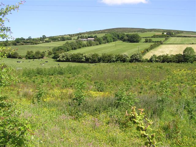 Dergalt Townland. Looking north-east